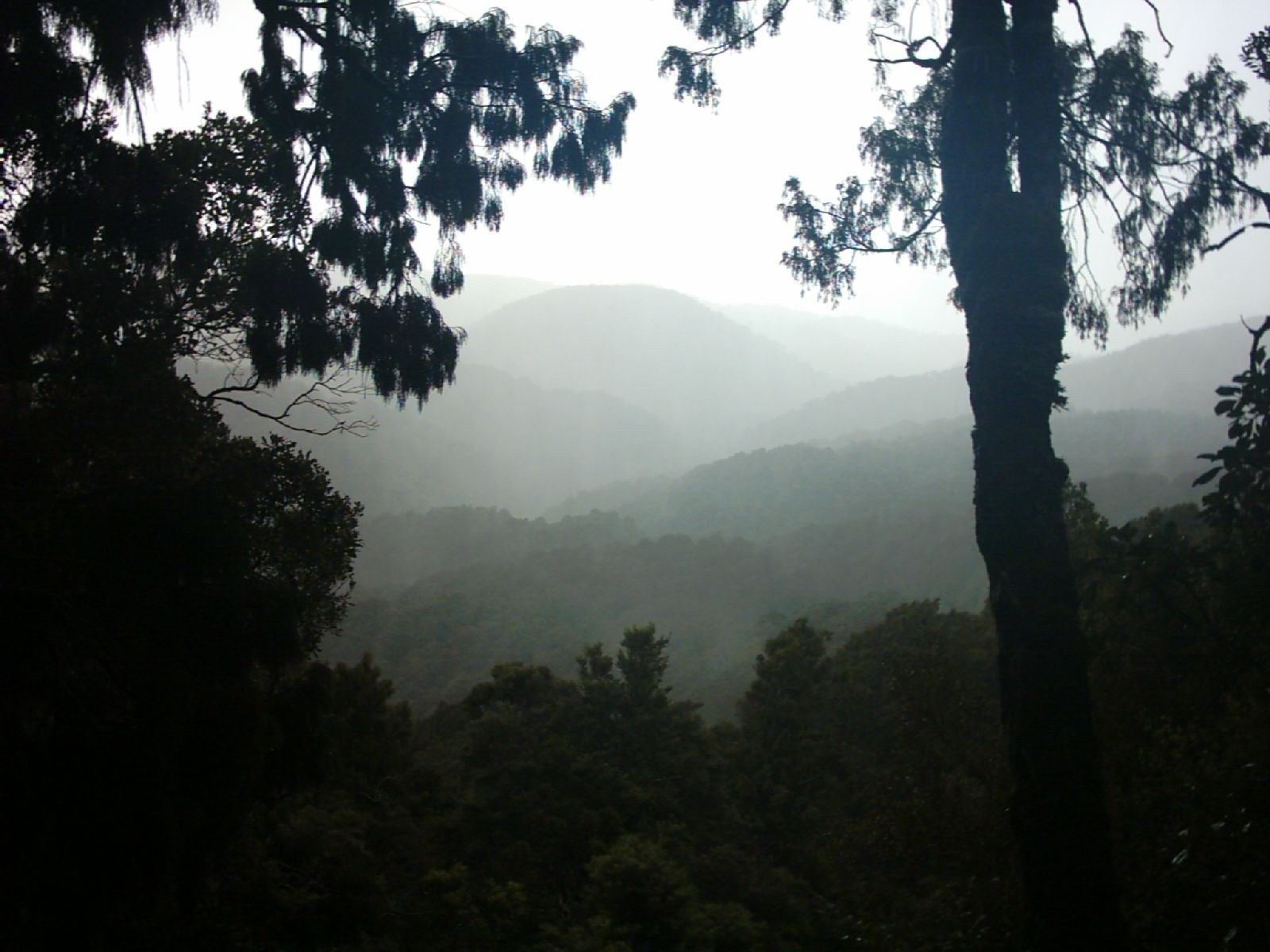 View from a section of the Rakiura Track, Stewart Island, New Zealand.